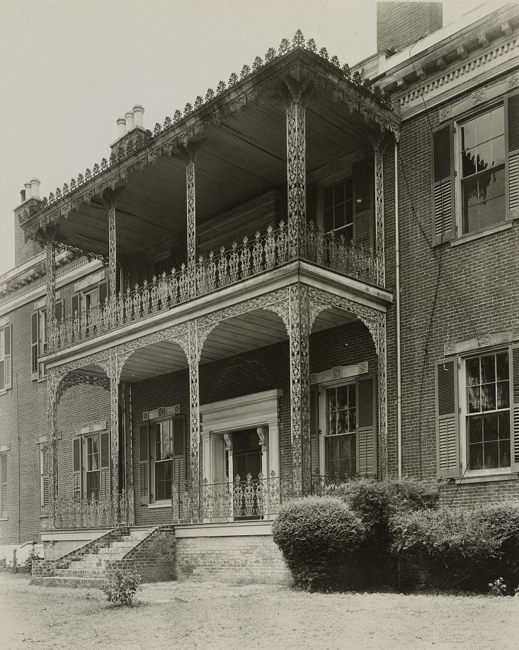 Title Homewood, Natchez, Adams County, Mississippi Contributor Names Johnston, Frances Benjamin, 1864-1952, photographer Created / Published 1938. Subject Headings - United States--Mississippi--Adams County--Natchez - Balconies. - Porches. - Doors & doorways. - Ironwork. - Houses. - Mississippi--Adams County--Natchez Format Headings Photographic prints. Notes - Title from photographer's inventory. - Land presented to Katherine Hunt by her father David Hunt when she married Major Wm. S. Balfour, who built the mansion. All bricks were made on premises. Has a mahogany fanspread stairway. - Building/structure dates: 1855-60. - Related name: Kingsley Swan. - Corresponding Carnegie Survey of the Architecture of the South neg. no. 1039. Library has no record of having this neg. - Gift; Anne E. Peterson; 2011; (DLC/PP-2011:206) - Forms part of: Carnegie Survey of the Architecture of the South (Library of Congress). Medium 1 photographic print. Call Number/Physical Location LOT 11838-1 [item] [P&P] Repository Library of Congress Prints and Photographs Division Washington, D.C. 20540 USA Digital Id ppmsca 32358 //hdl.loc.gov/loc.pnp/ppmsca.32358 Control Number csas201207186 Reproduction Number LC-DIG-ppmsca-32358 (digital file from photograph) Rights Advisory No known restrictions on publication. Online Format image Description 1 photographic print.